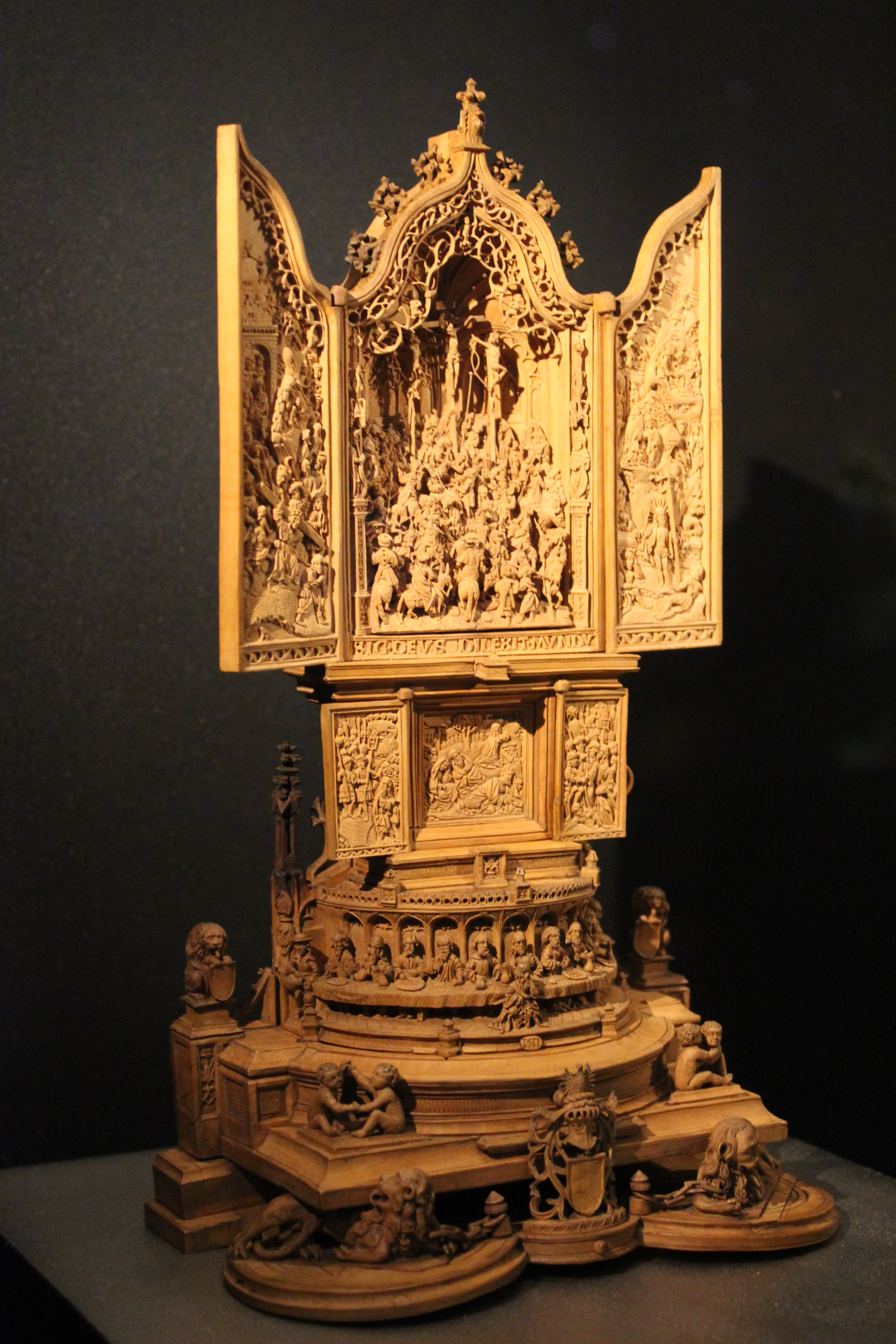 Boxwood altarpiece, 1511, Waddesdon bequest